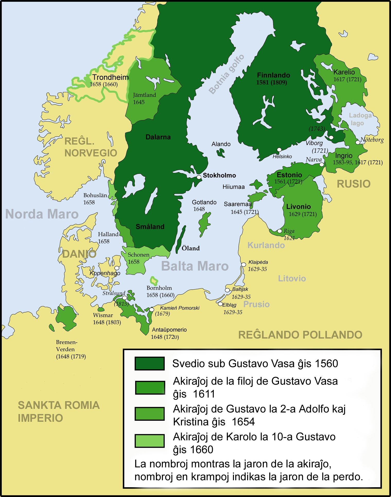 Development of the Swedish Empire in Early Modern Europe (1560-1815), Esperanto version